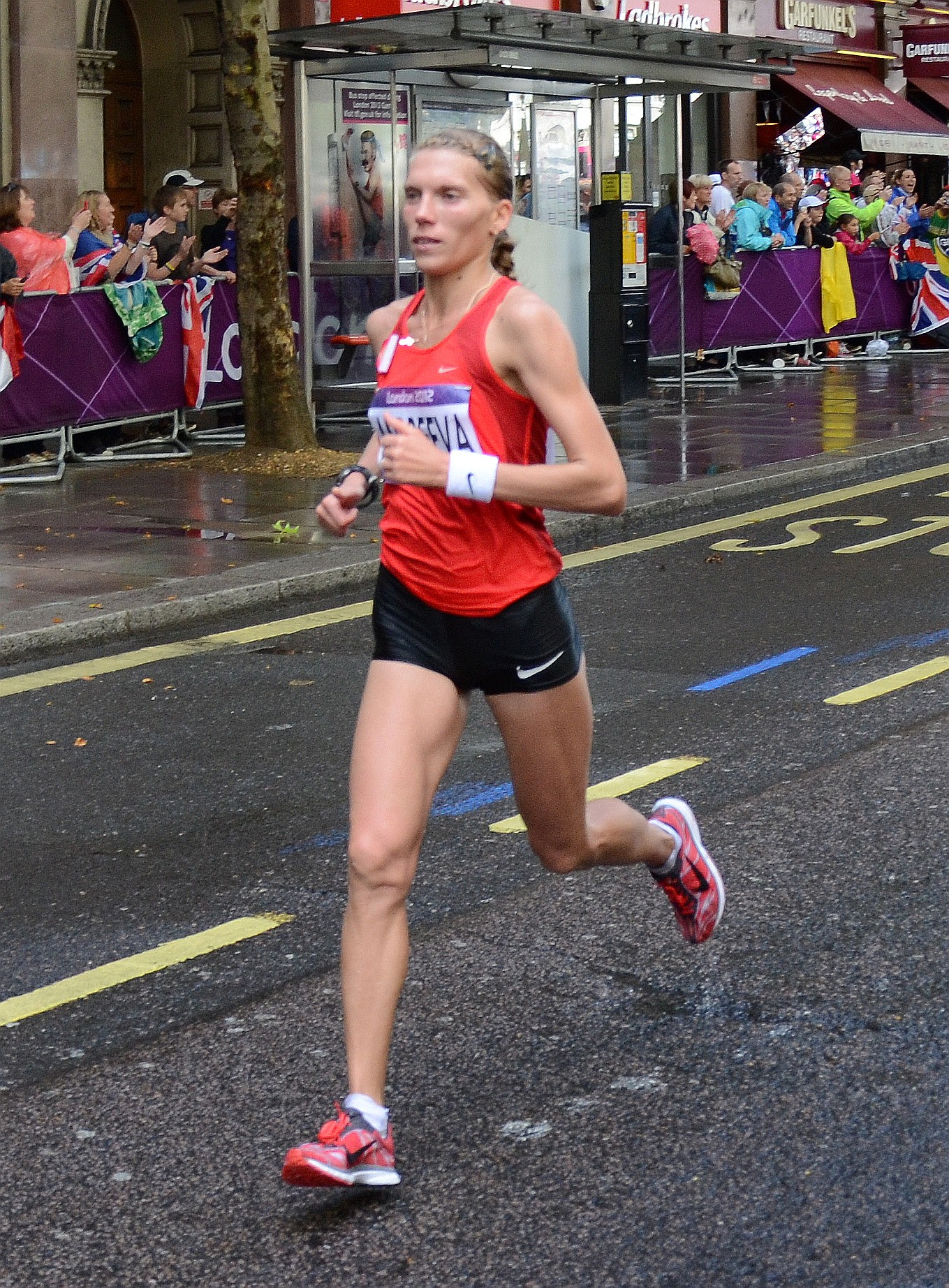 Iuliia Andreeva (Kyrgyzstan) in the marathon (w) at the Olympic Games 2012